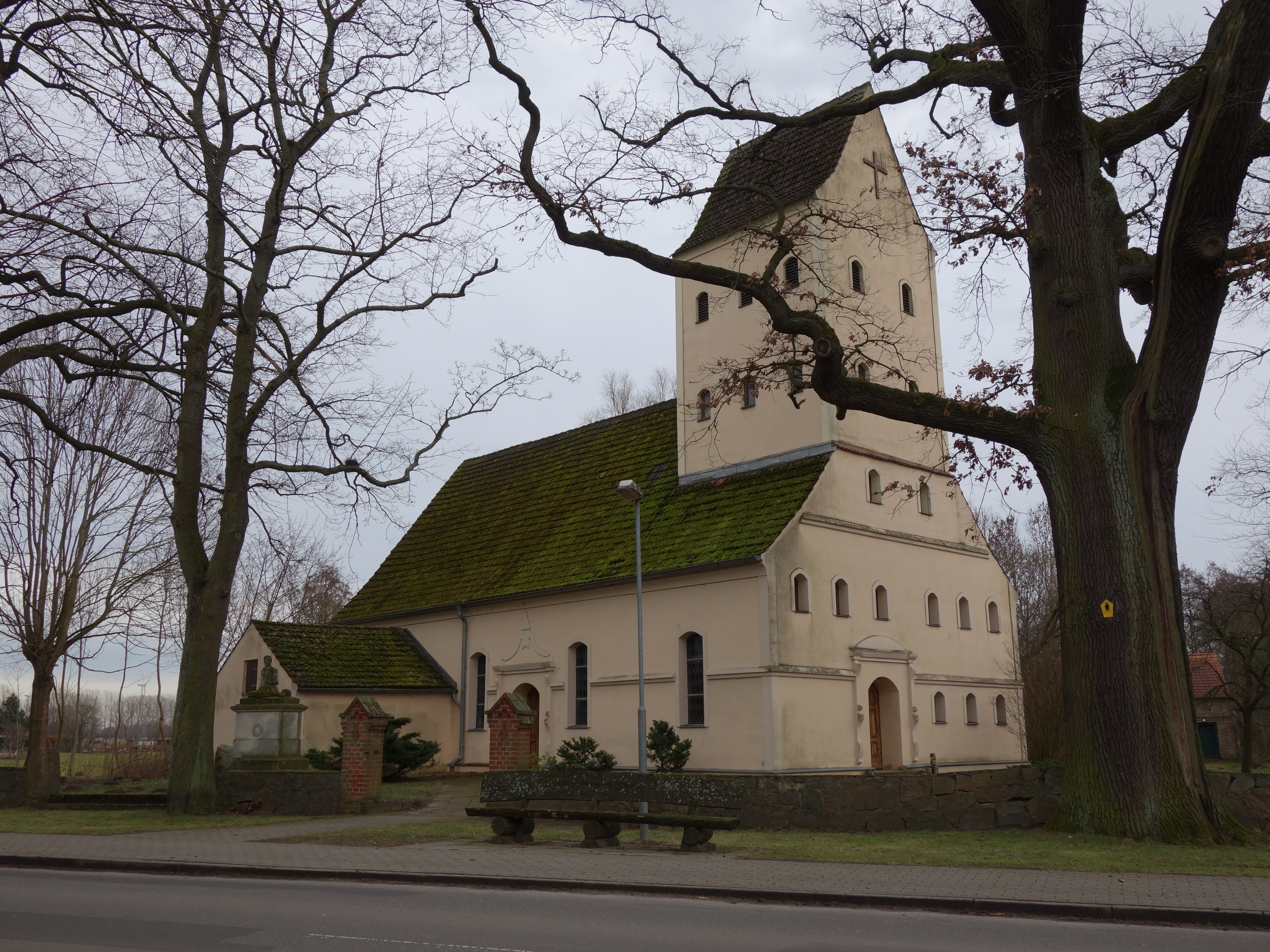 North-western view of Walsleben church, Walsleben municipality, Ostprignitz-Ruppin district, Brandenburg state, Germany